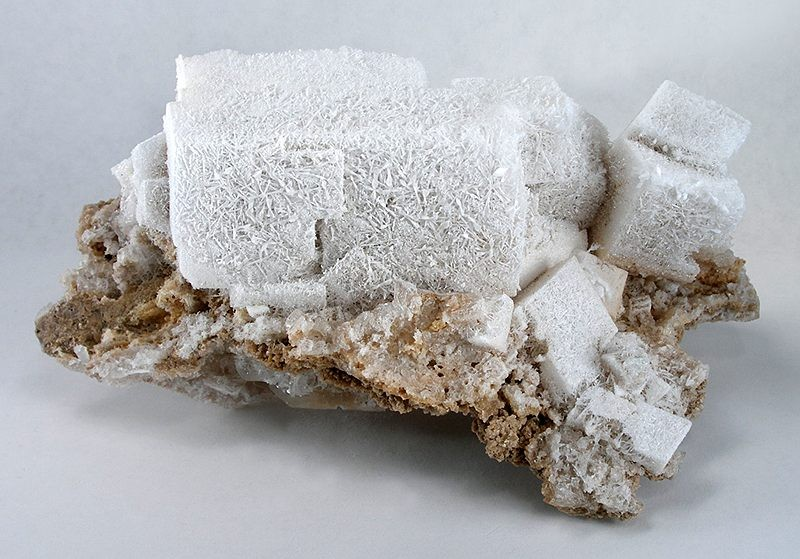 Meyerhofferite, Inyoite Locality: Monte Azul deposit, Sijes, Salta, Argentina (Locality at ) Size: 17.7 x 9.2 x 8.1 cm. I am not sure if I can call this a pseudomorph or not?! It looks more like a biological infestation run amok, but it IS an alteration, somehow; and so I imagine this IS an alteration-pseudomorph. Perhaps 90% of the original inyoite has been here altered to meyerhofferite, so that the crystals are inyoite only in the minute spaces between the meyerhofferite, and at their bases (seems to have been an alteration starting in the top and outer layers of the crystals). You can tell even by the heft of the piece, that it is different, and almost completely altered. The appearance is bizarre and actually quite mesmerizing, like no pseudo I can recall seeing because of the minute and discrete meyerhofferite crystals that together make up the replacement. I am told by several people familiar with the Boron meyerhofferites that this is likely the best meyerhofferite pseudo around.